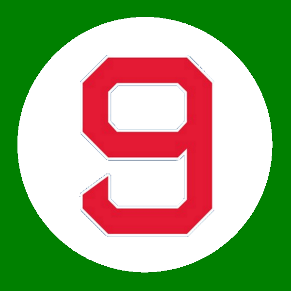 Red Sox retired numbers as hung on the right-field facade during the 2016 season in Fenway Park